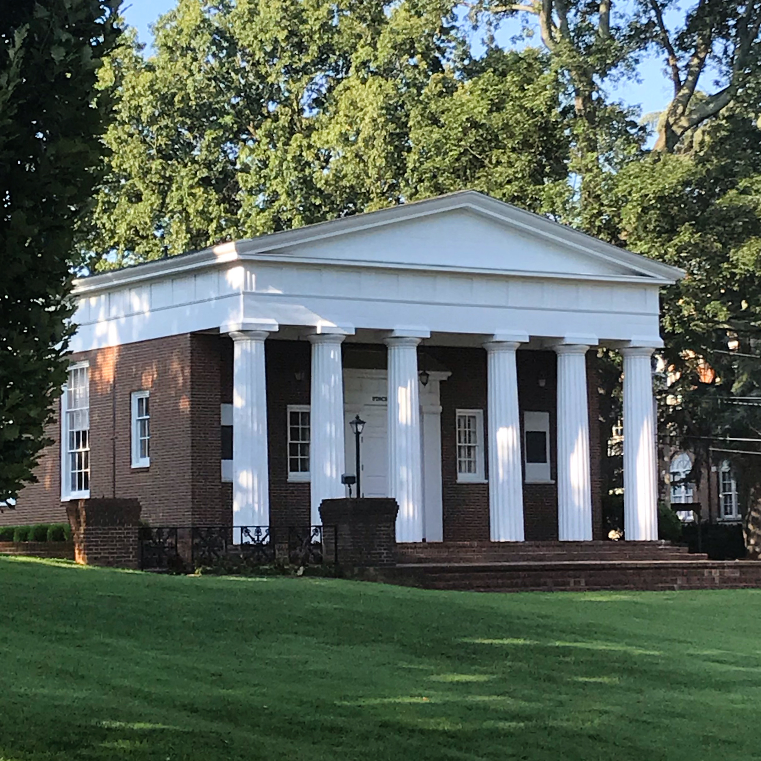 Finch Memorial Chapel, located on the campus of Greensboro College, is the worshipping heart of the College. It was built in 1954 and named after Hannah Brown Finch.